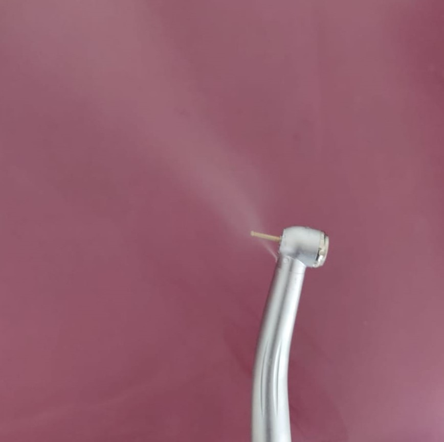 aerosols from a dental handpiece